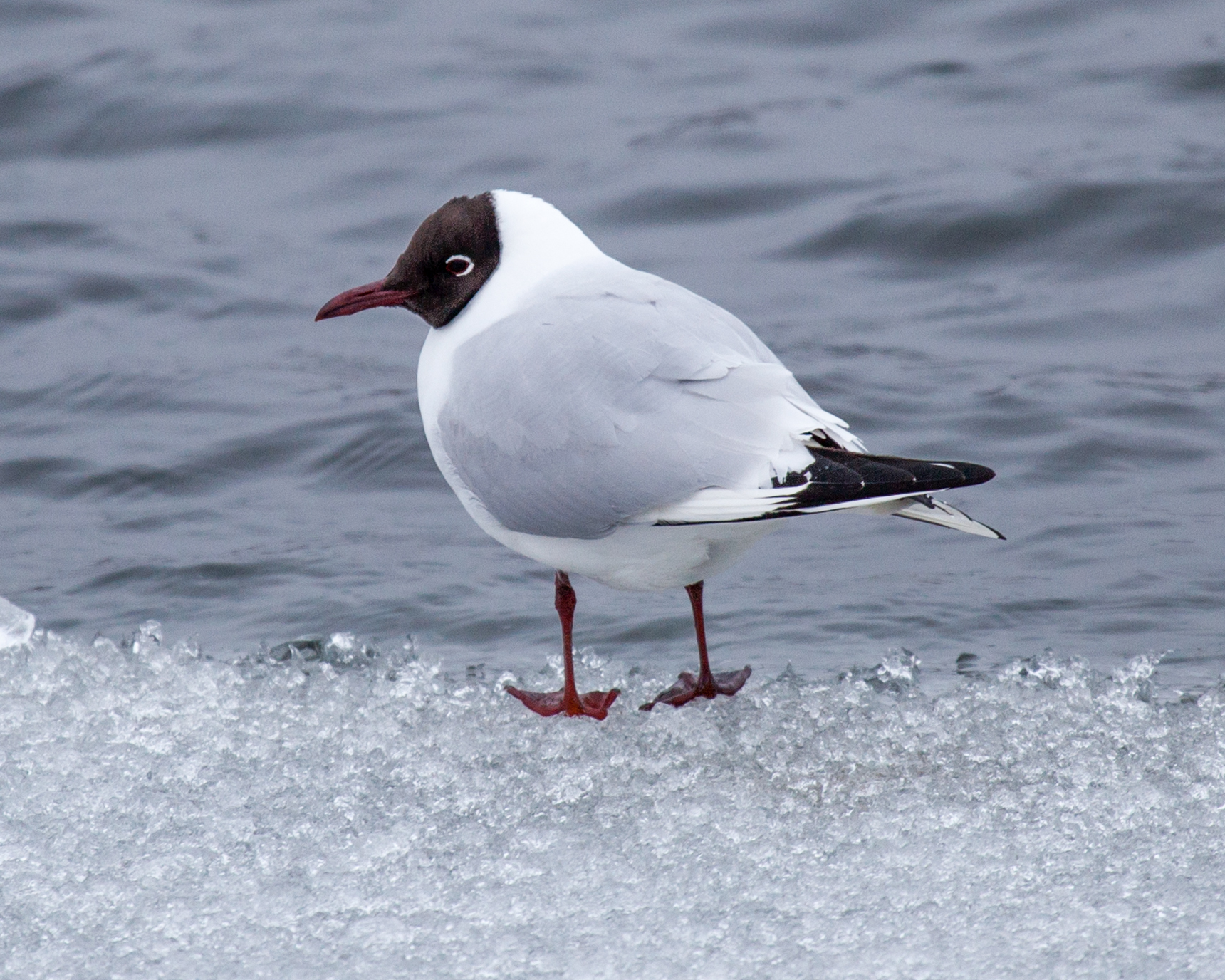 Black-headed Gull Chroicocephalus ridibundus, Vaxholm Sweden April 2013